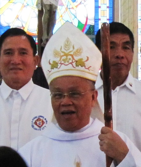 Photo of Bishop Leopoldo S. Tumulak